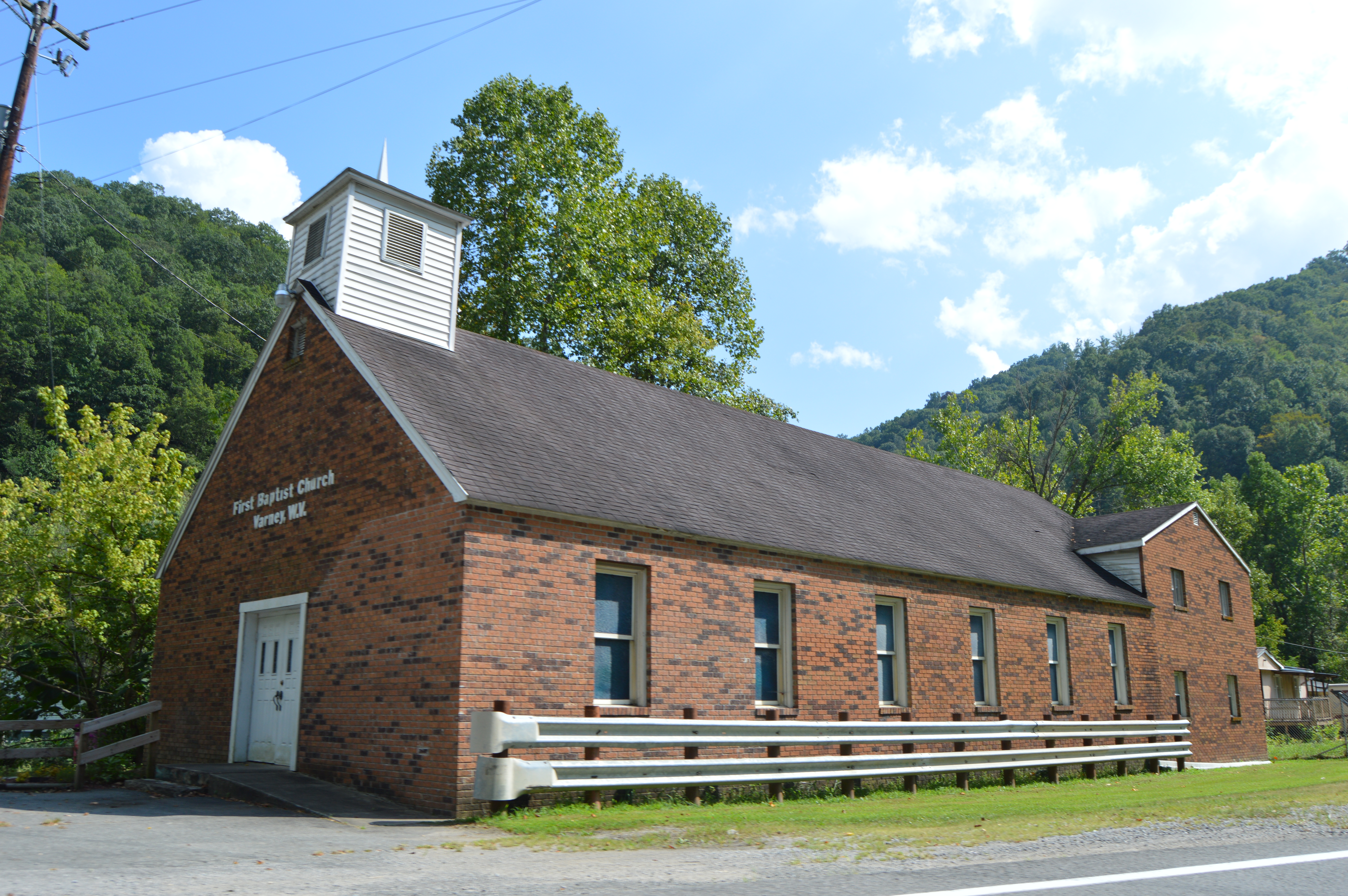 Front and western side of the First Baptist Church of Varney, located on County Road 252 (formerly U.S. Route 52) in Varney, West Virginia, United States.